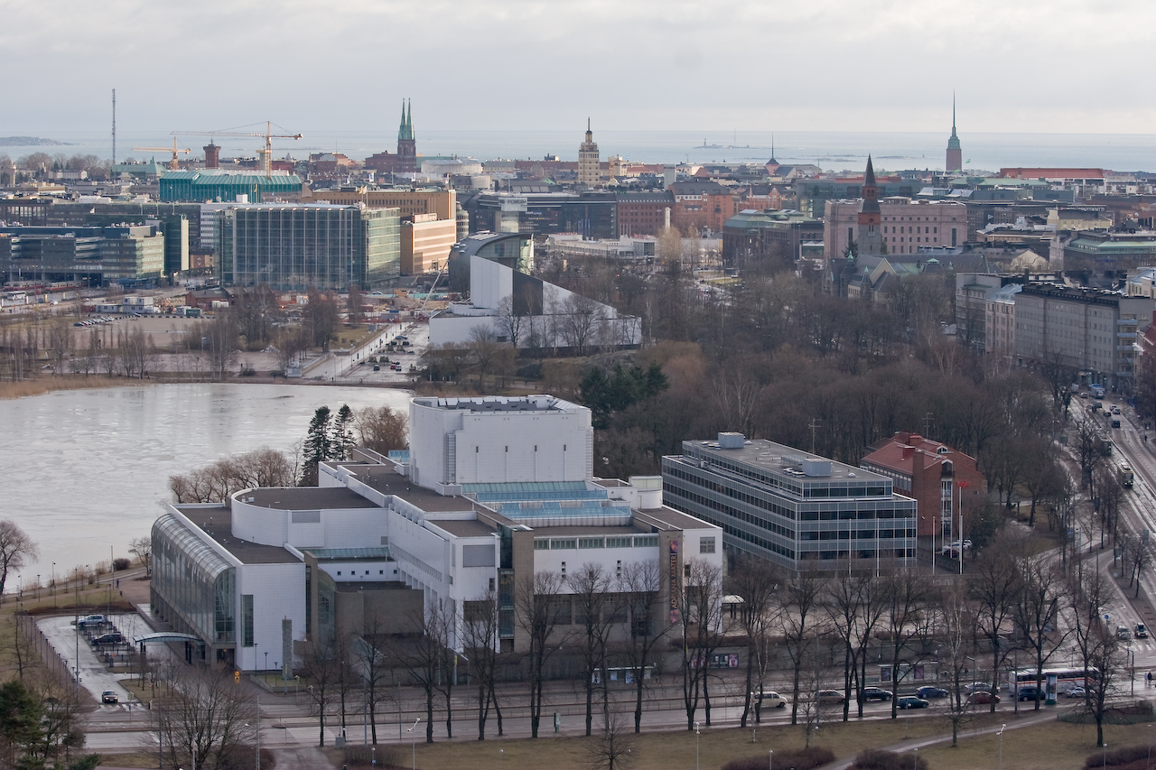 Finnish National Opera in Helsinki from the Olympic Stadion tower